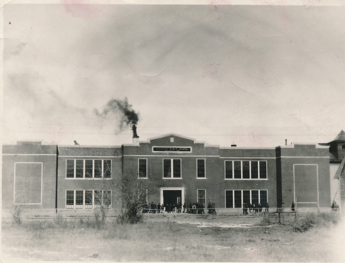 Duchesne School that hosted grades K - 10 from 1926 until 1931 then hosted K -12. In 1935 the building became an elementary school then was torn down in 1965.